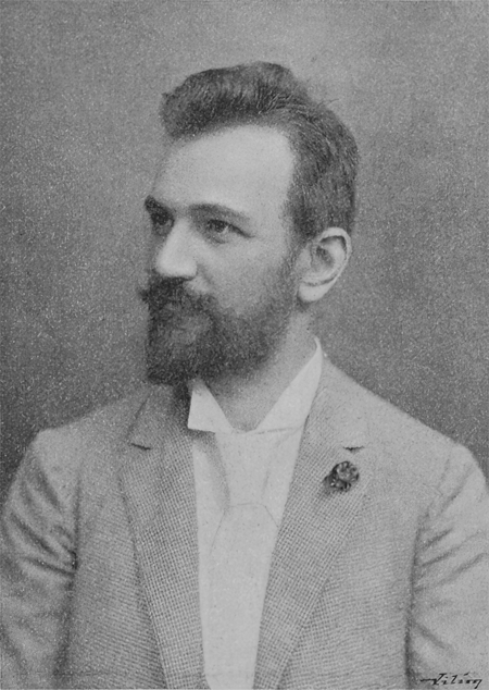 Portrait of Josef Bohuslav Foerster (1859 - 1951), Czech composer